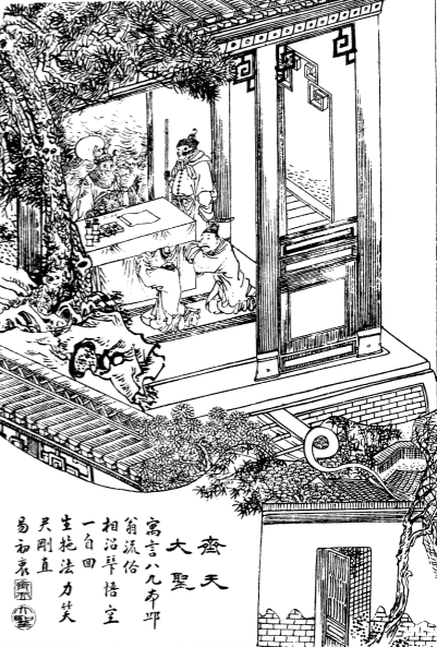 19th-century illustration of a scene from the short story "The Great Sage, Heaven's Equal" collected in Strange Tales from a Chinese Studio (1740).